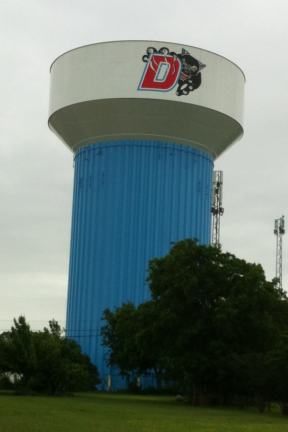 View from the south of the recently repainted water tower on east side of Clark Road.